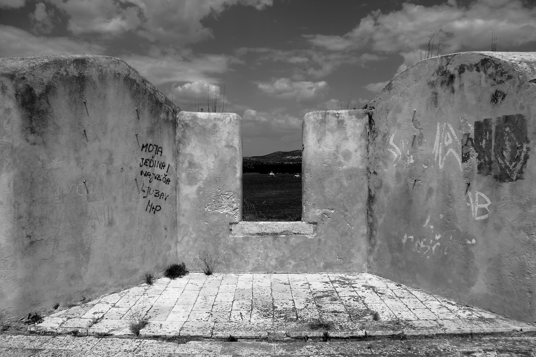 St. Nicholas Fortress upper structure